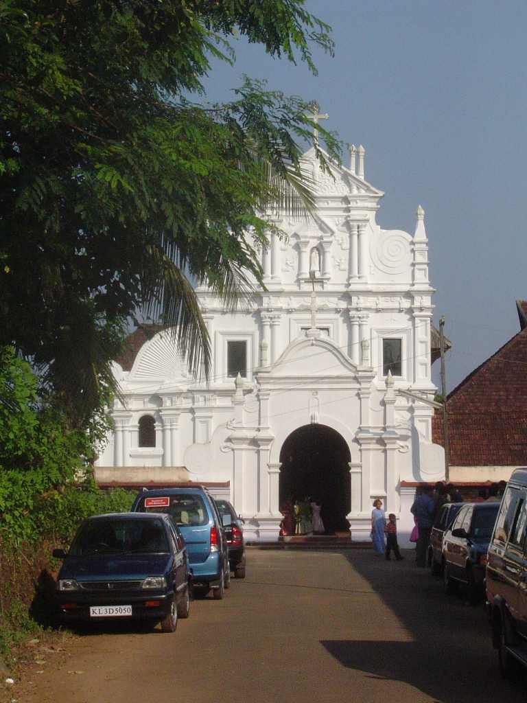 Cheria Pally Church from west in Kottayam, Kerala, India selfmade by pitichinaccio, 26 Dec 2005